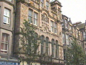 Former Oddfellows Hall, Forrest Road, Edinburgh, Scotland